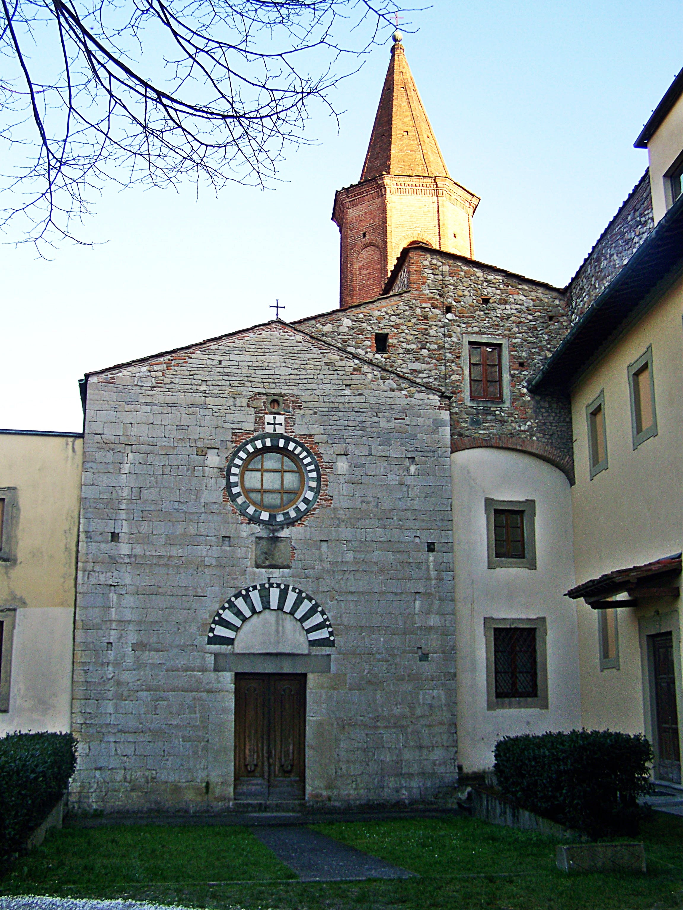 facade